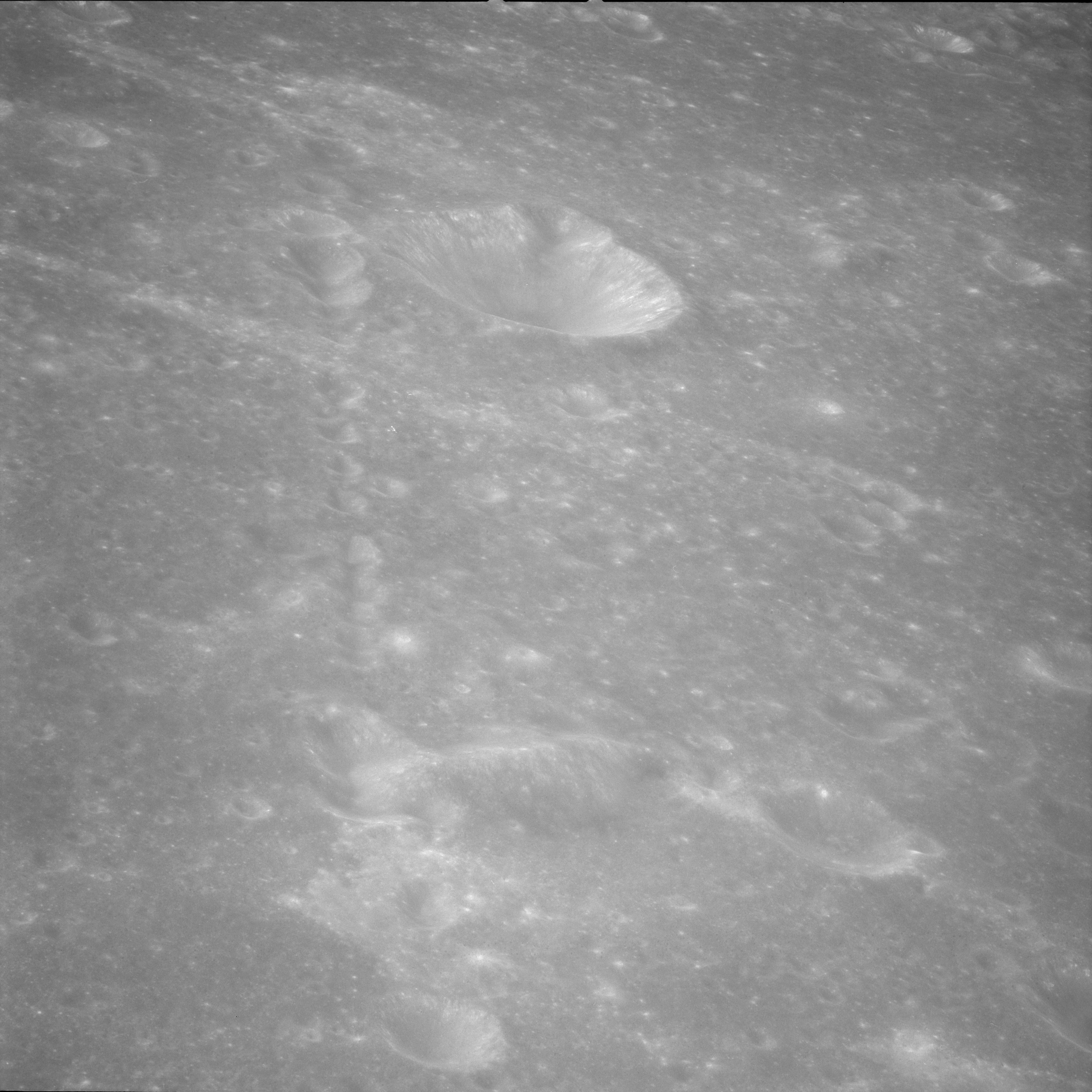 This is an oblique photograph of the Catena Mendeleev linear crater chain. This feature is located on the interior floor of the Mendeleev walled plain, on the far side of the Moon. The image was taken during the Apollo 11 mission. The crater at top center is Richards. The absence of shadows is due to the high angle of the sun.